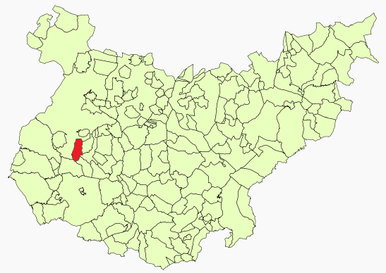 Almendral